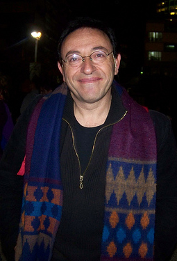 A cropped version of an original photo by Ido Kenan of Belgian/Israeli comics artist/cartoonist Michel Kichka, taken at a demonstration in front of the Tel-Aviv Museum.